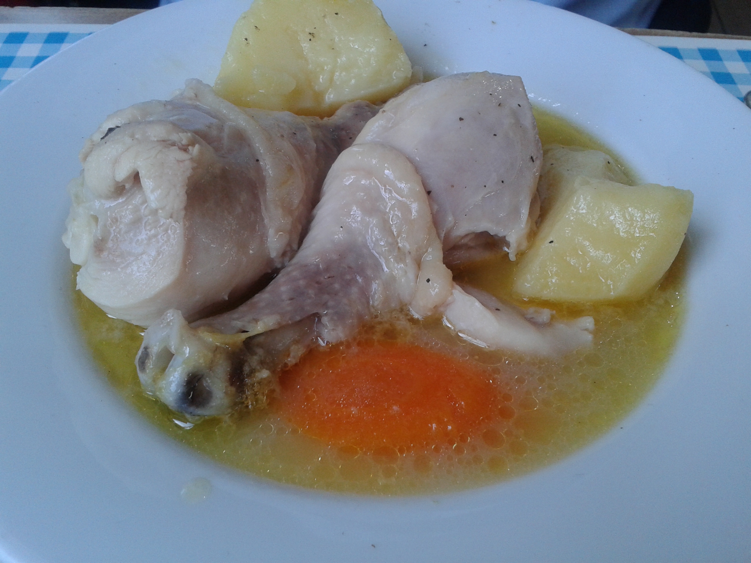 "Tavuk haşlama", a kind of chicken stew fronm Turkey.